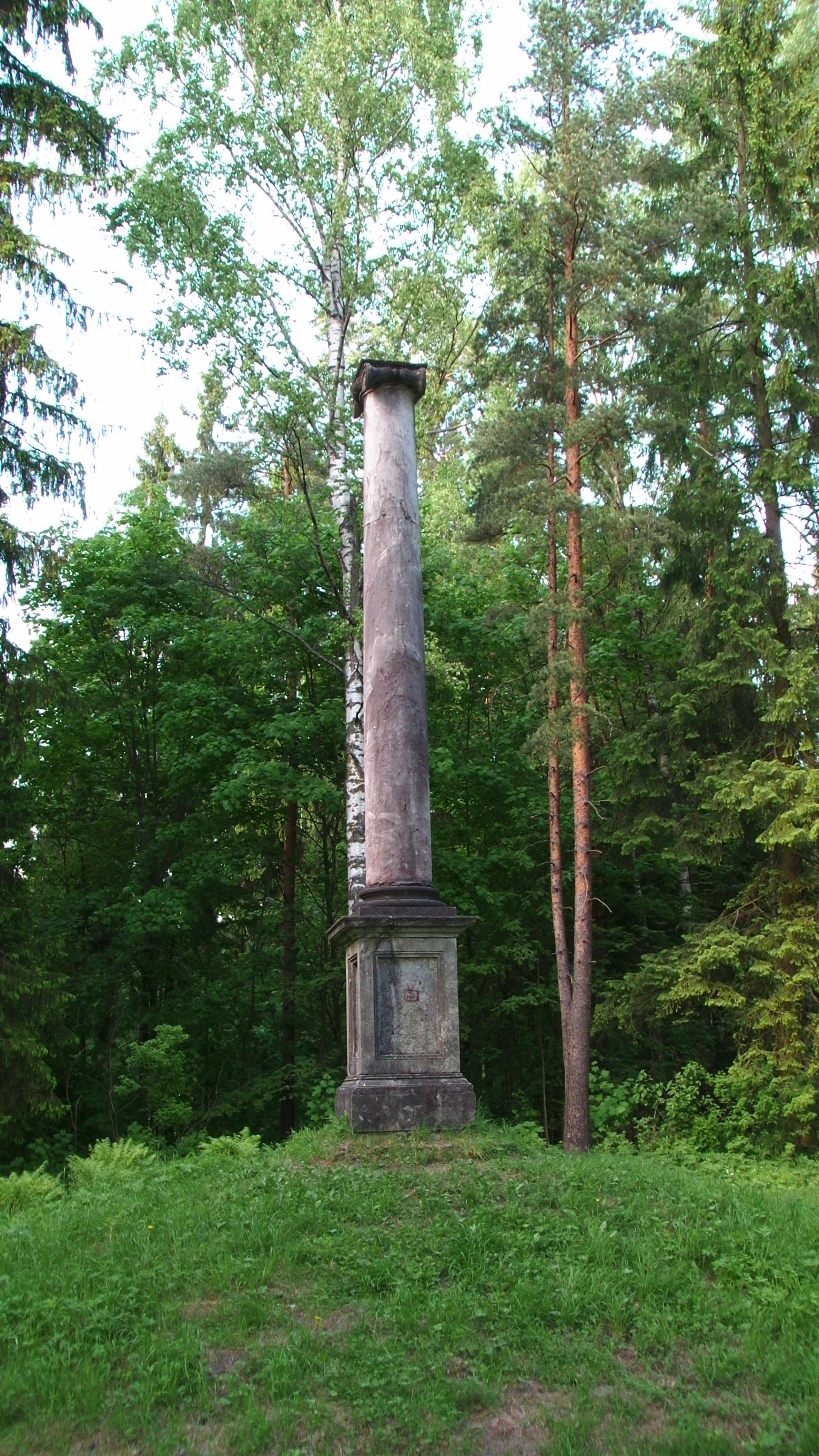 Column 'The Land's end' in Pavlovsk park (in early summer 2011).